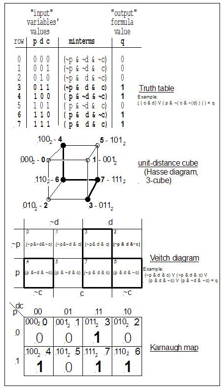 Drawn by wvbailey in Autosketch, imported to Adobe Acrobat, exported as .png.